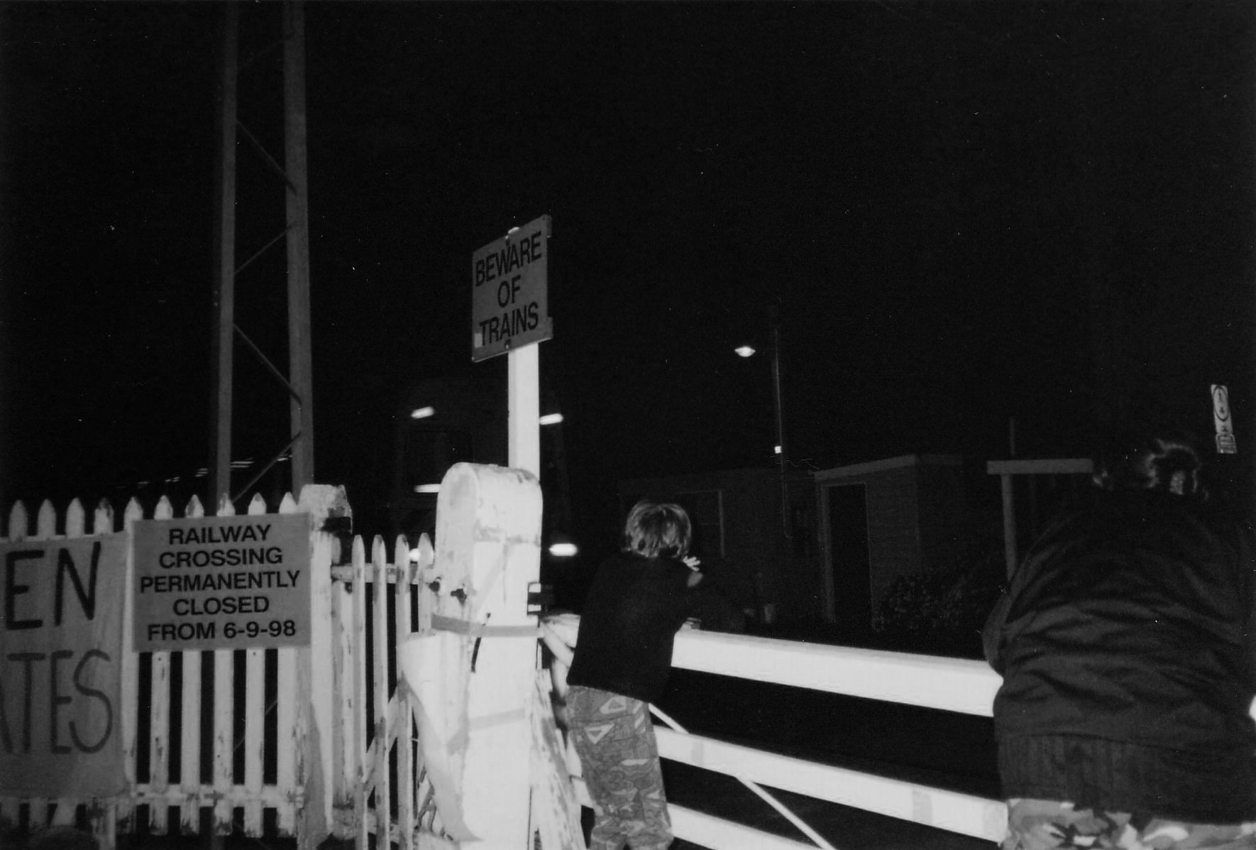 Last train through the Tinning Street Railway Crossing on the W:Upfield railway line, Melbourne before the gates were permanently locked to vehicle traffic. The Gatekeepers hut can be seen on the other side of the railway in the middle of the photo. About twenty people gathered at the permanent closure of the gates at this historic occasion including local State Member of Parliament W:Carlo Carli and local Federal Member of Parliament, W:Kelvin Thomson.